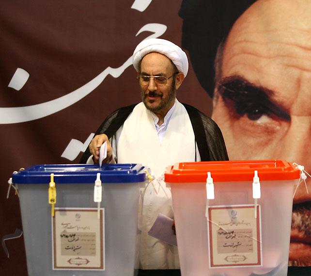 Ali Younesi voting in 2013 Iranian presidential election, Jamaran.